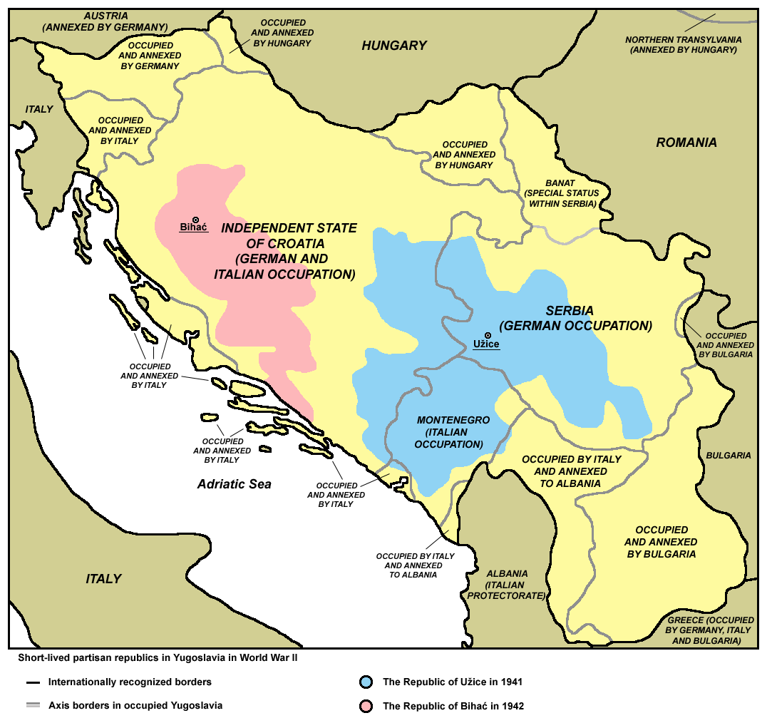 Short-lived partisan republics in Yugoslavia in World War II: the Republic of Užice in 1941 and the Republic of Bihać in 1942. Srpskohrvatski / српскохрватски: Kratkotrajne partizanske republike u Jugoslaviji u vreme Drugog svetskog rata: Užička republika (1941) i Bihaćka republika (1942).